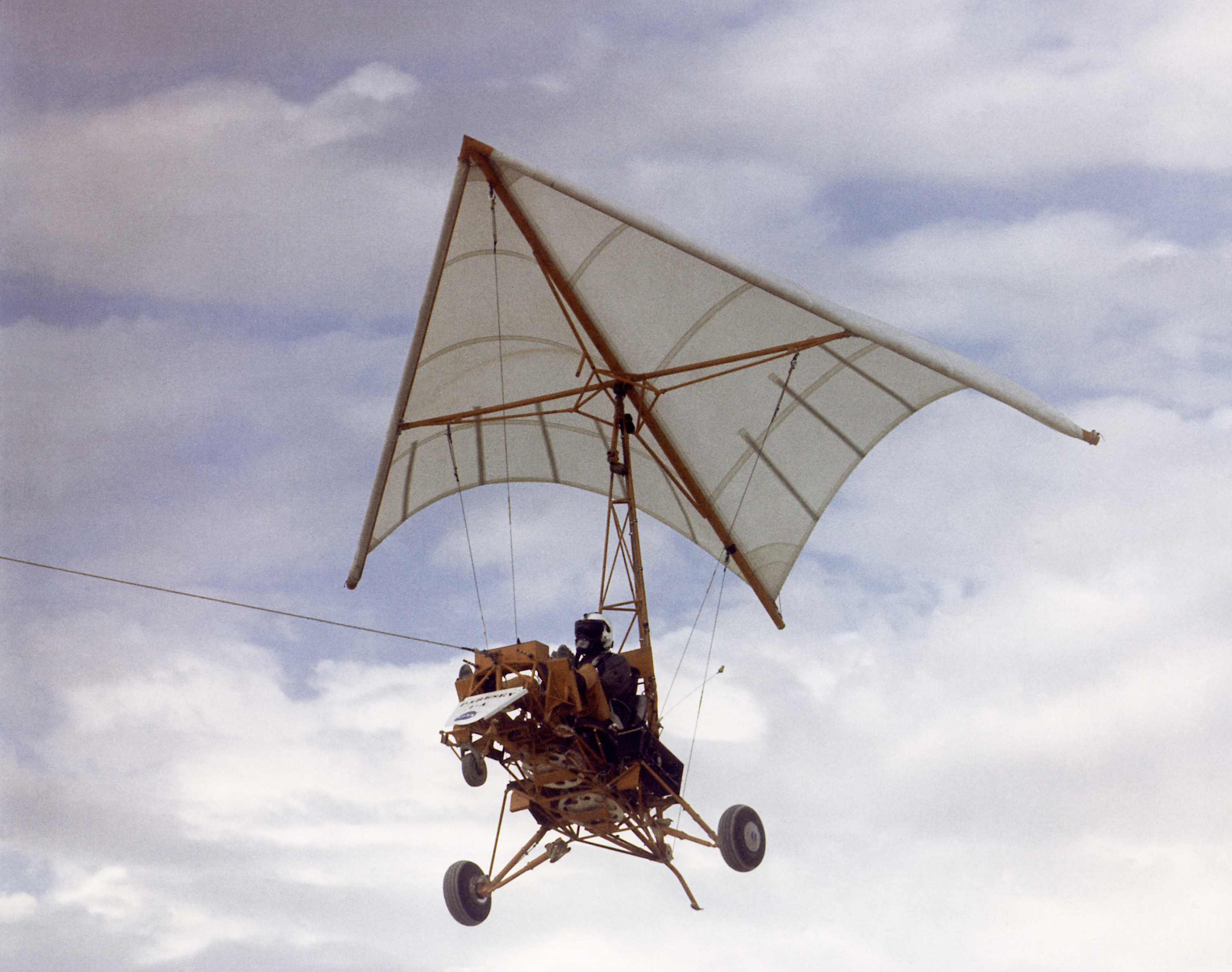 The Paresev experimental aircraft. A normal flight was a takeoff on the Rogers Dry Lakebed at Edwards Air Force Base and a circling flight path skirting the lake edges to insure a landing on the lakebed in the event of a towline failure. Release altitude was normally 10,000 to 13,000 feet. Data was obtained on the glide part of the flight. By maintaining simplicity during construction, it was possible to make control and configuration changes overnight and in many instances, in minutes.